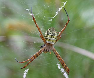 female Argiope aemula from Okinawa.